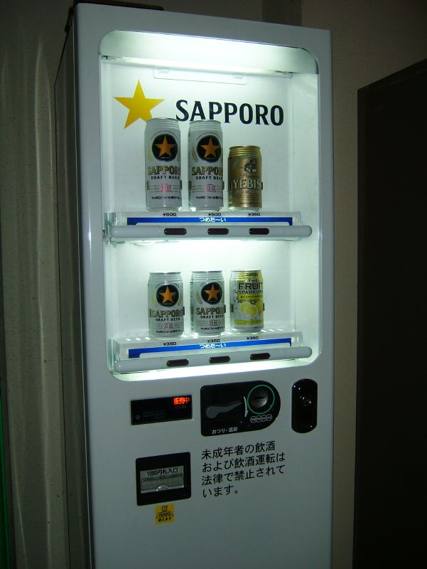 Beer vending machine for Sapporo brand in Hokkaido, Japan.